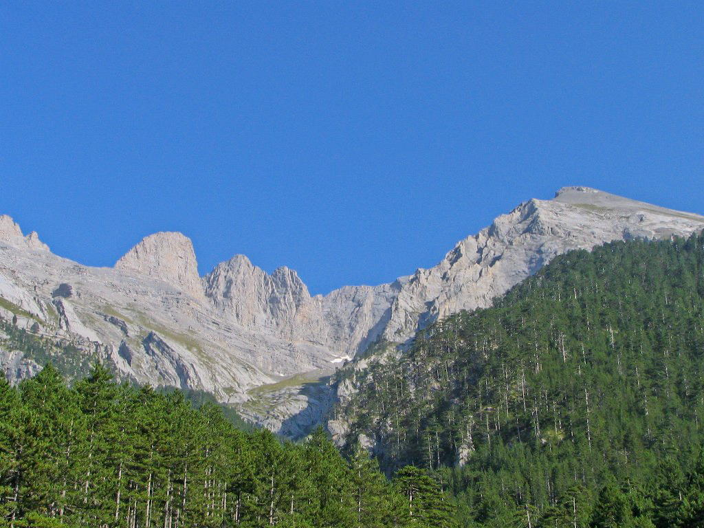 A view from the west side of Olimpos located about 10 to 15 kilometres (6 to 9 mi) from Kokkinopilos vilage